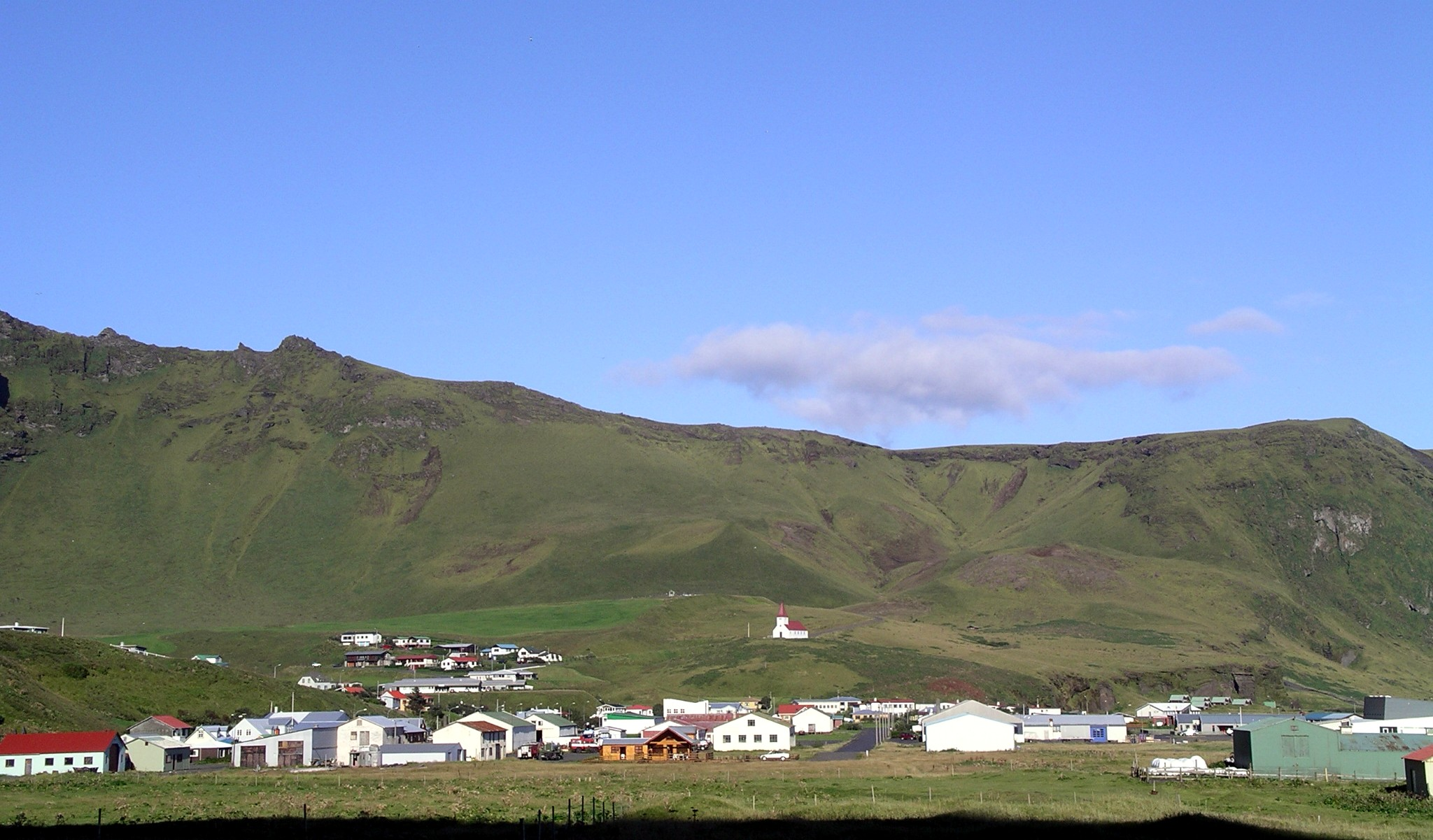 Vík í Mýrdal (Iceland)) seen from the beach